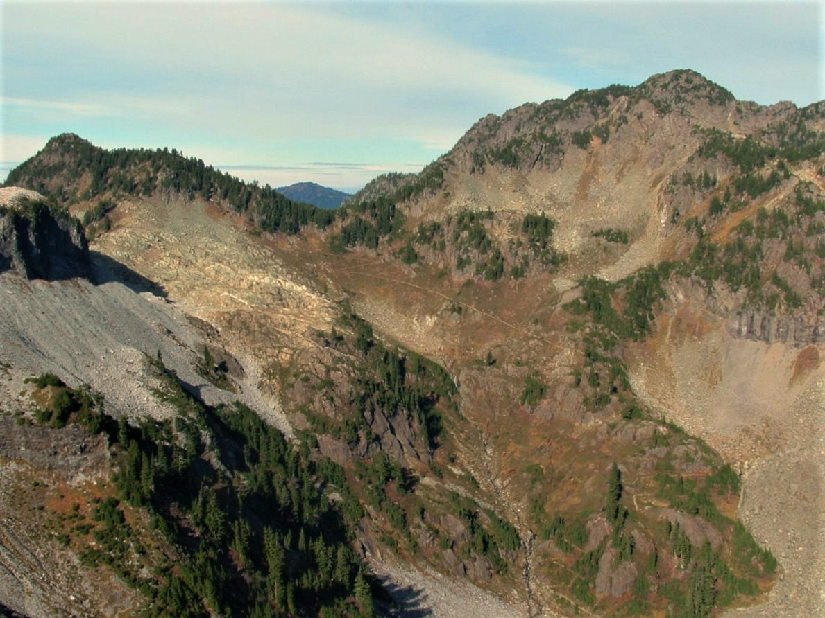 Looking from summit of Table Mountain to 5400 foot Herman Saddle, and the trail up to it, from Bagley Lakes.